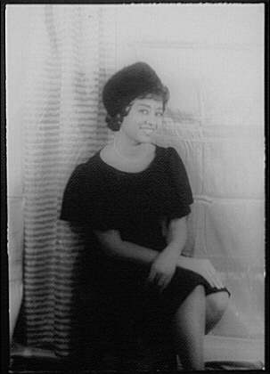 Title: Portrait of Reri Gristi Abstract/medium: 1 photographic print : gelatin silver.